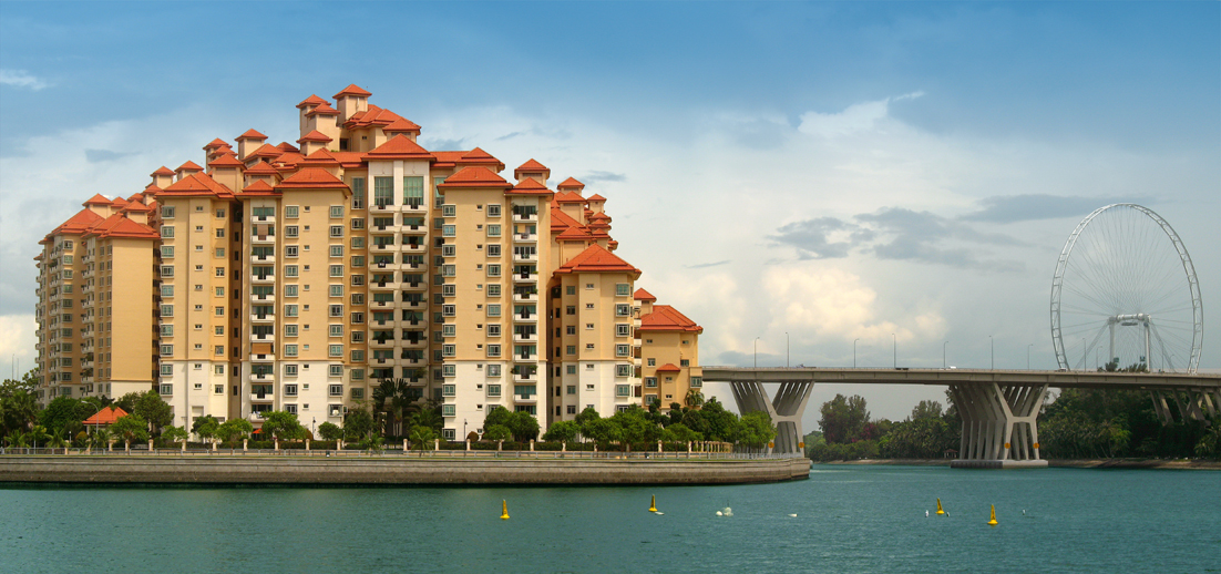 A cluster of condos near the East Coast Expressway, Singapore. On the right is the "Singapore Flyer", a giant observation wheel that features brilliant engineering breakthroughs and is set to be Asia's most visible iconic visitor attraction. When completed in March 2008, it will provide breathtaking, panoramic views of Singapore and beyond. More info on the web